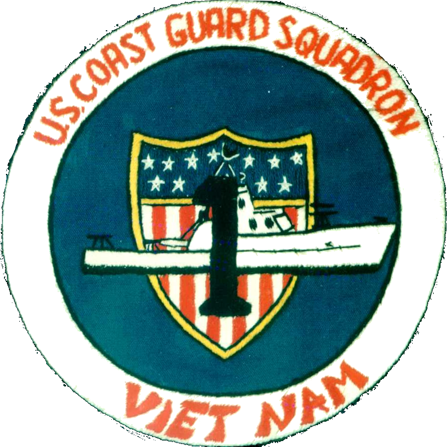 Seal of United States Coast Guard Squadron One